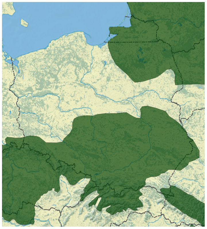 Geographical distribution of the Norway Spruce Picea abies in Poland. The map was created using the QGIS, a Free and Open Source Geographic Information System, version 2.12.3-Lyon.